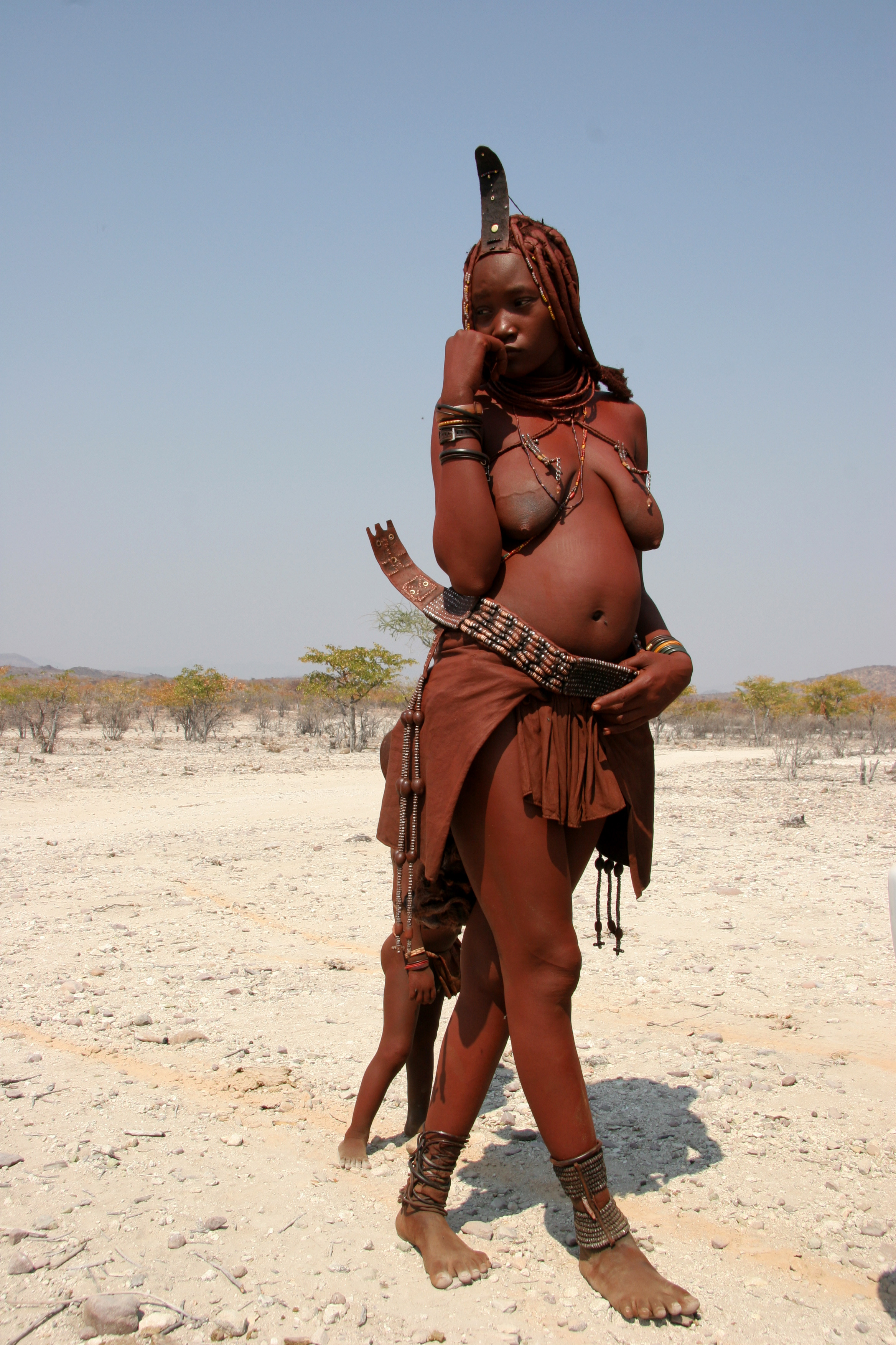 Young Himba lady. Picture taken in Namibia.